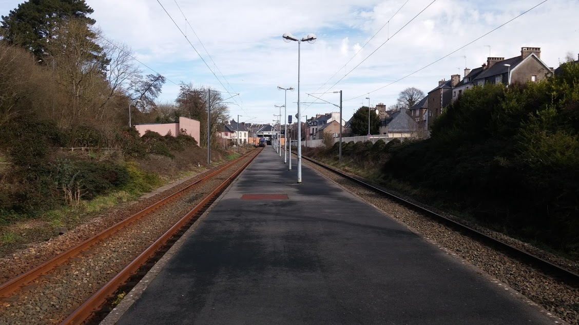 View of Lannion Station, Brittany, France. A single SNCF X73500 unit stands in platform 1 for midday departure to Plouaget-Tregor